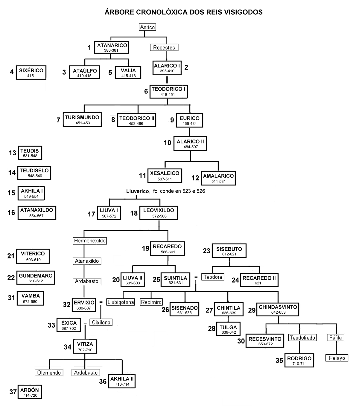 The chronological tree of the Visigoths Kingdom